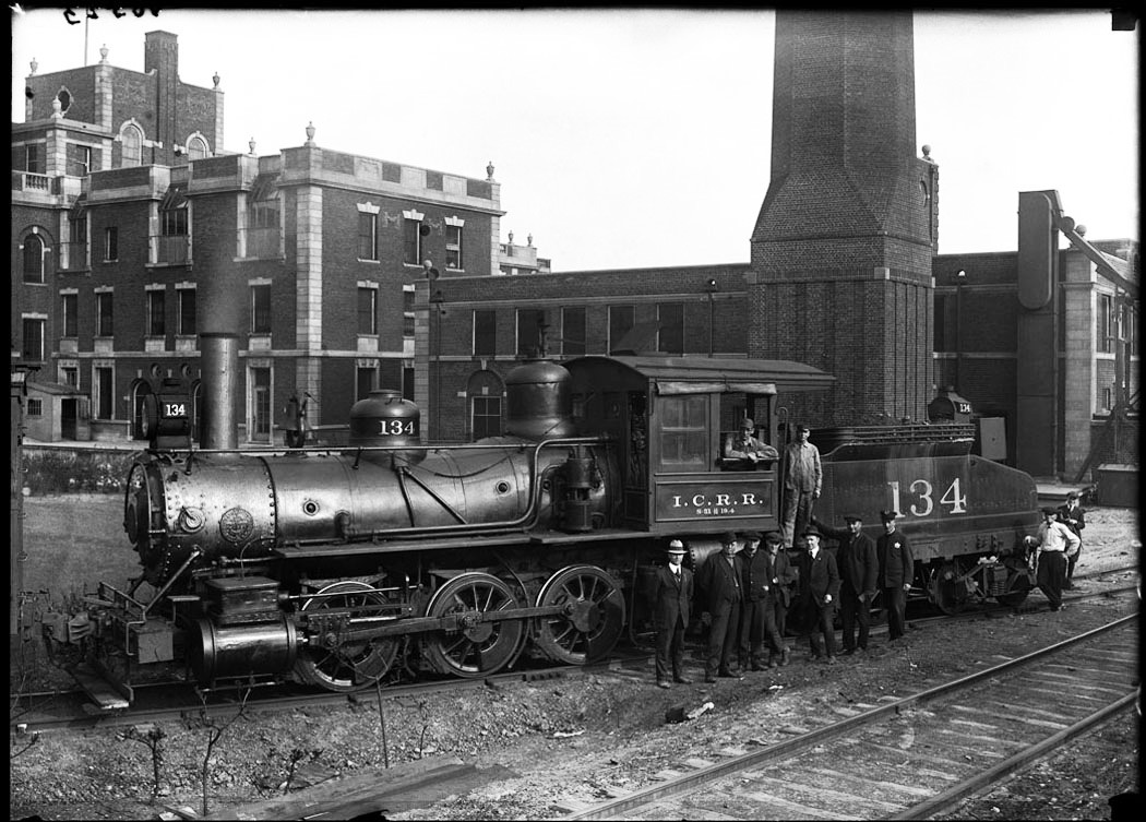 Men and train engine, possibly outside Illinois Central railroad terminal or hospital building (verify). Engine I.C.R.R. 134. Museum move series. 1920. Original size and material: 5x7 inch glass negative Digital Identifier: CSGN40523 Part of the Illinois Urban Landscapes Project